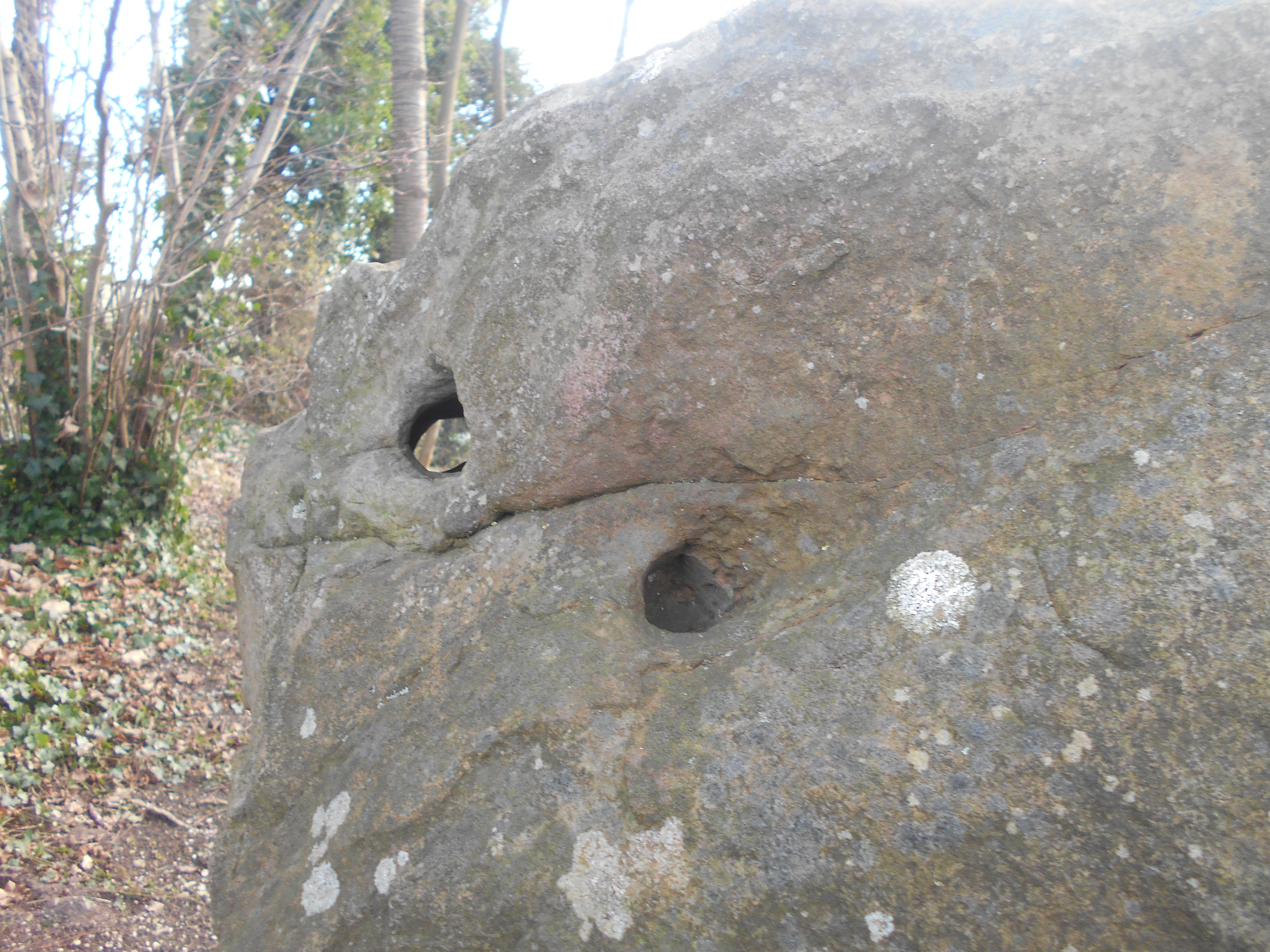 The White Horse Stone, a standing stone near Blue Bell Hill, Kent.